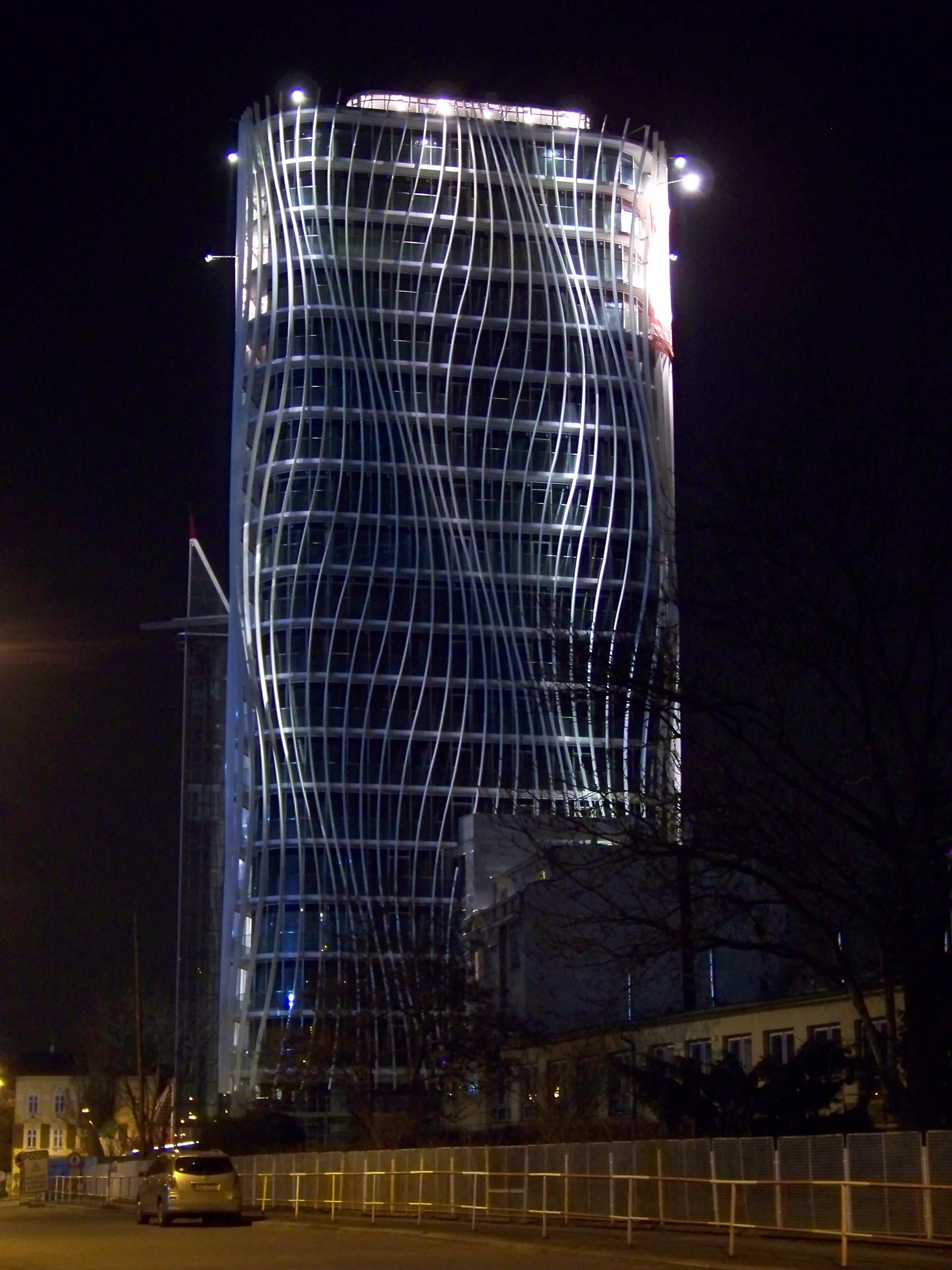 Karlín, Prague, the Czech Republic. U Sluncové Street, Sun Tower.